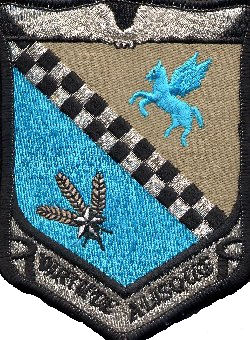 Patch of 391st Bombardment Group